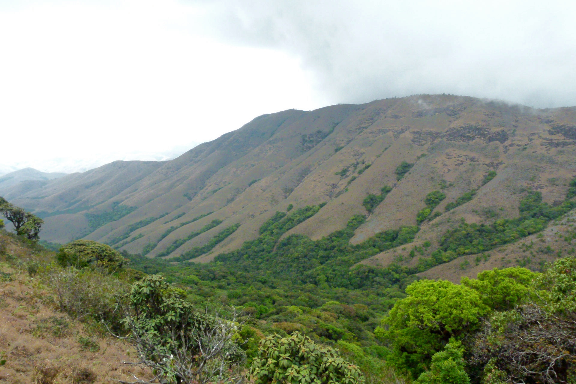 Mukurthi National Park, Nilgiris